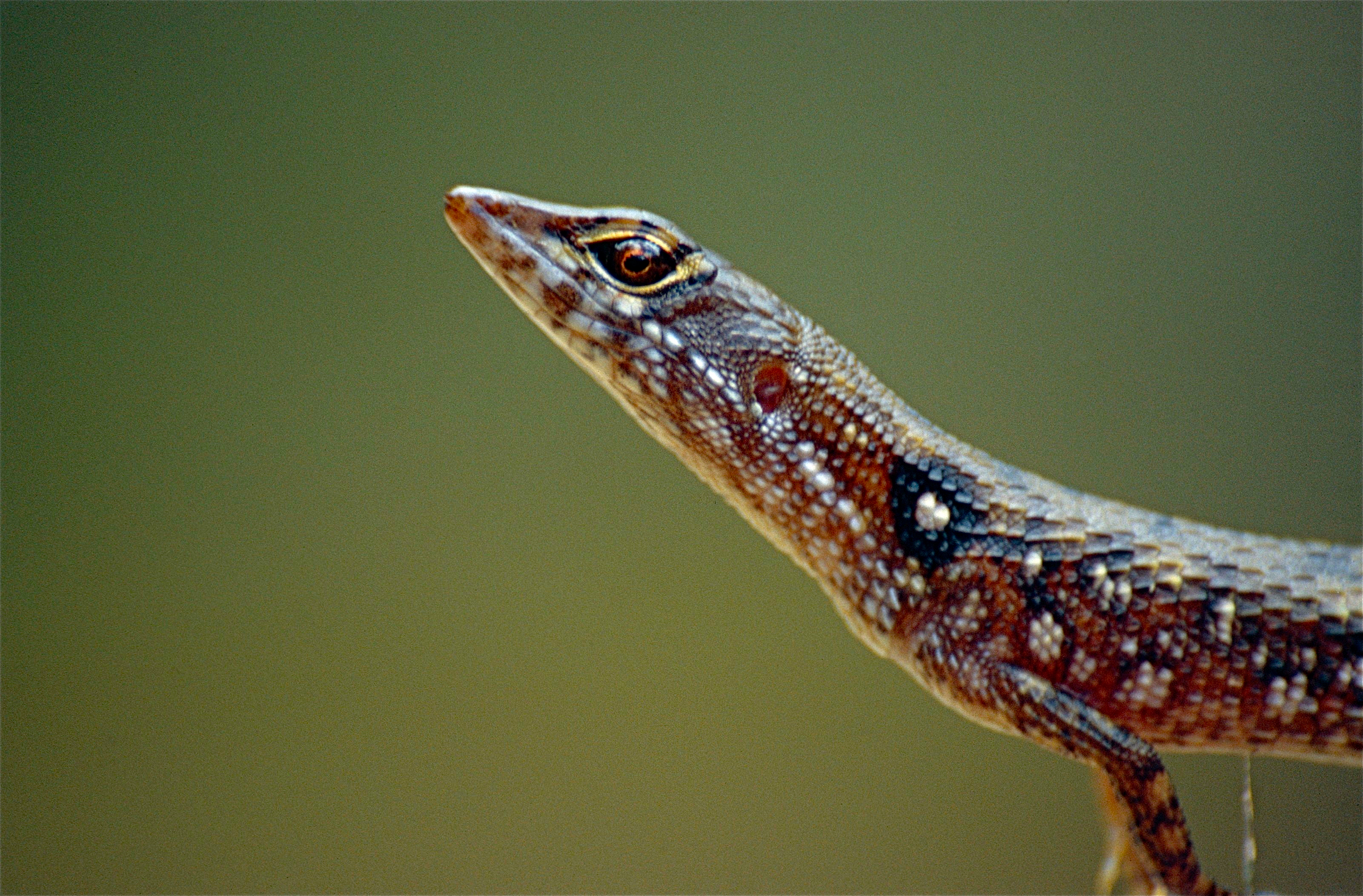 Saül, Guyane, FRANCE Scanned Slide from 2000